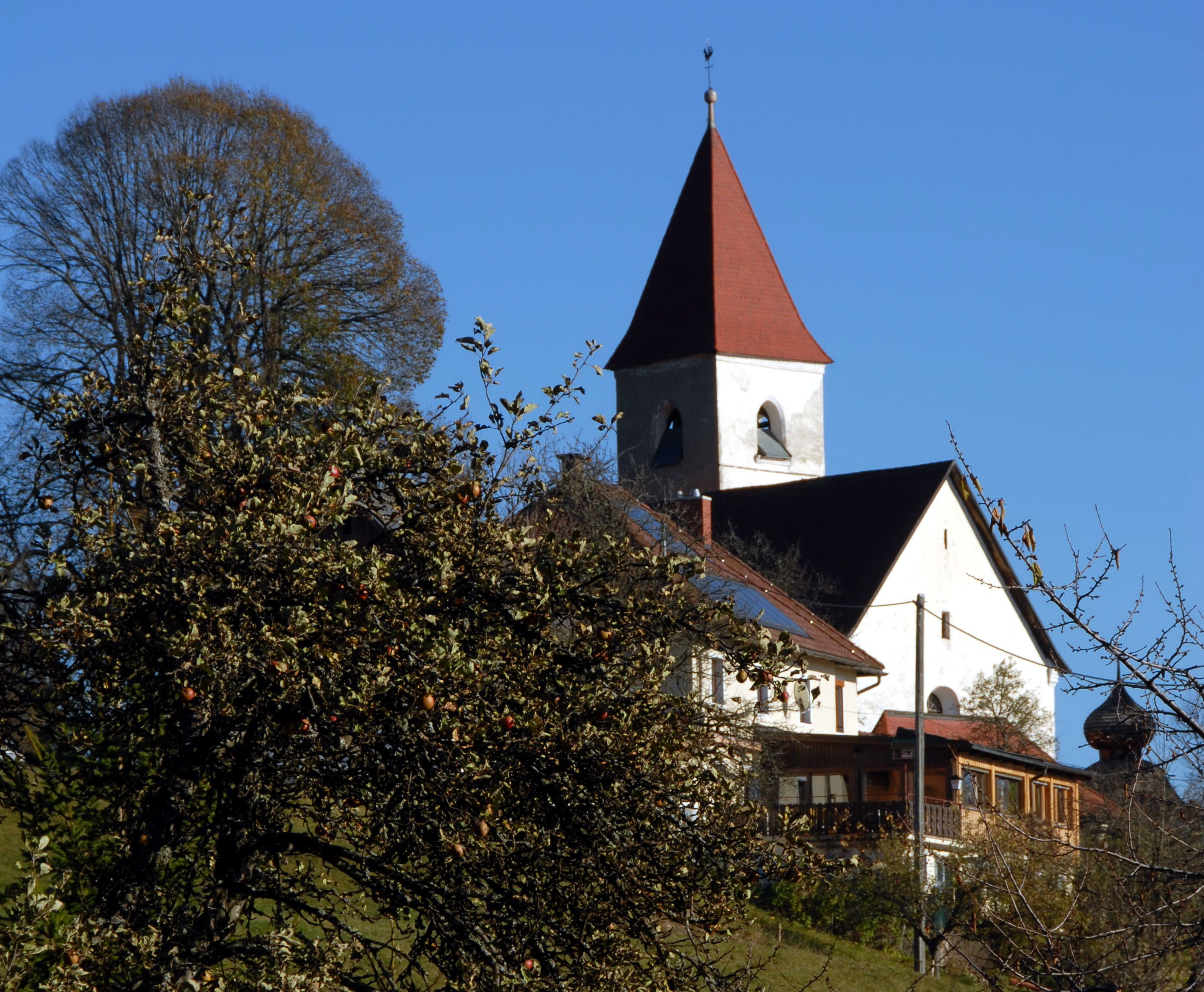 Subsidiary church Saint Christopherus on top of the Christof mountain, locality Christofberg, municipality Brückl, district Sankt Veit an der Glan, Carinthia / Austria / EU